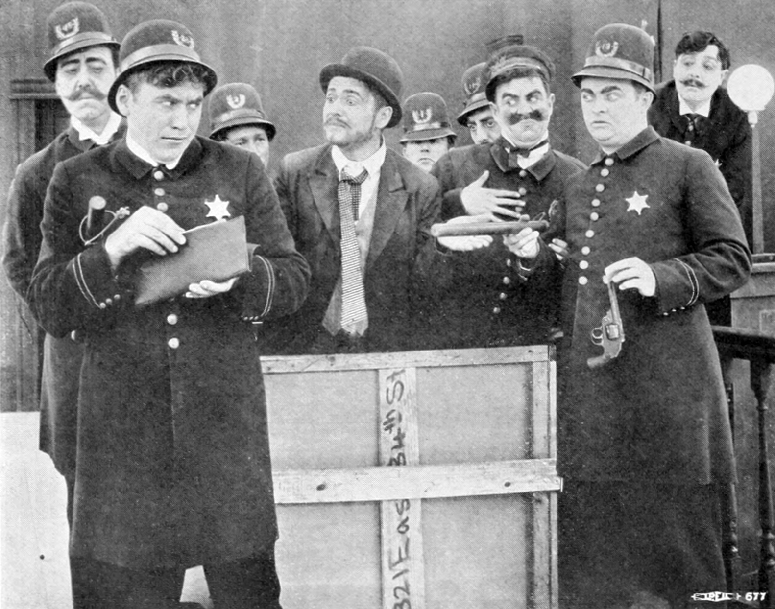 Photograph of the Keystone Cops Caption reads as follows: Harry Vallejo, the photographer, has withdrawn from his archives this first picture of the Keystone Cops, the leader of a long line of laughmakers. The subject was produced late in 1912. The personnel of the "force" would indicate Sennett was a good picker of "comers." But reading from left to right: Robert Z. Leonard, Mack Sennett, Bill Haber, Henry (Pathe) Lehrmann [Lehrman], — McAlley, Chet Franklin, Ford Sterling, Fred Mace, Arthur Tavaras [Tavares]. This photo appears in Mack Sennett's Fun Factory, Volume 1, by Brent E. Walker. It is identified as being from the film The Stolen Purse, filmed in November 1912. Jefferson, N.C.: McFarland & Company, Publishers, 2010, ISBN 978-0-7864-7711-1 page 28. The Stolen Purse was released February 10, 1913. More information